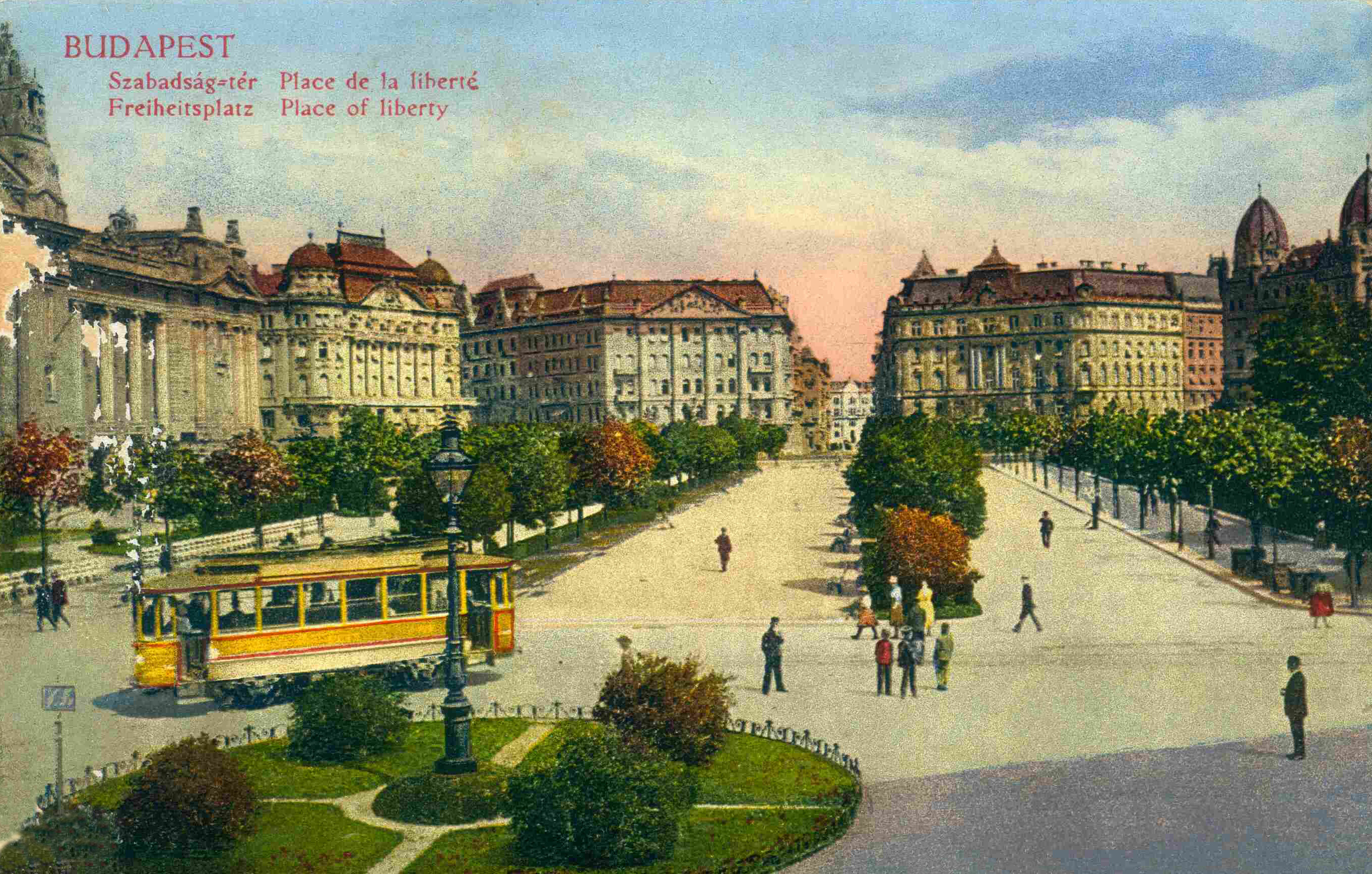 Budapest: Freedom Square, 1912